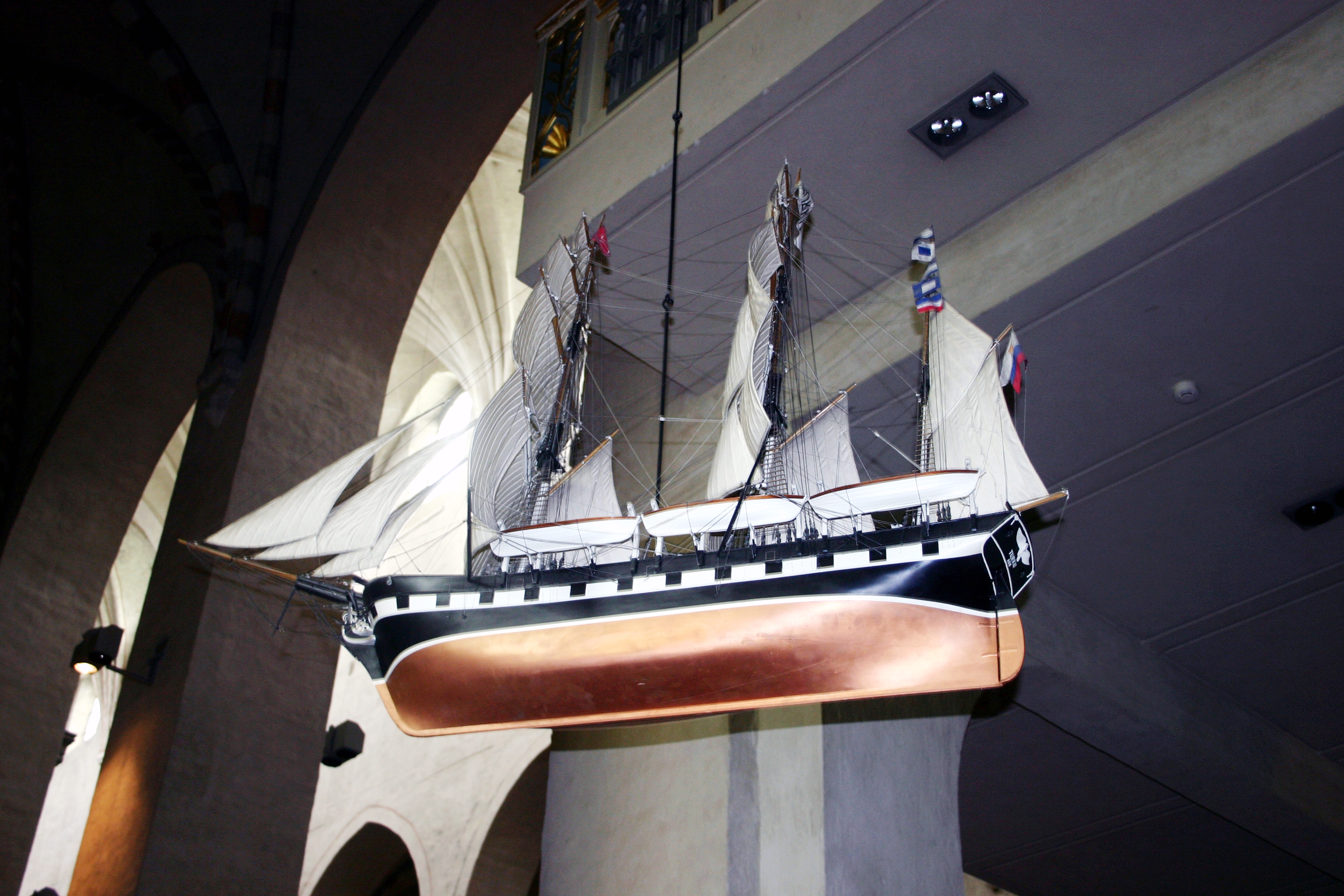 A finnish whale ship